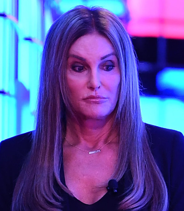 9 November 2017; Caitlyn Jenner, Olympian & Advocate of Transgender Rights, on Centre Stage during day three of Web Summit 2017 at Altice Arena in Lisbon. Photo by Stephen McCarthy/Web Summit via Sportsfile